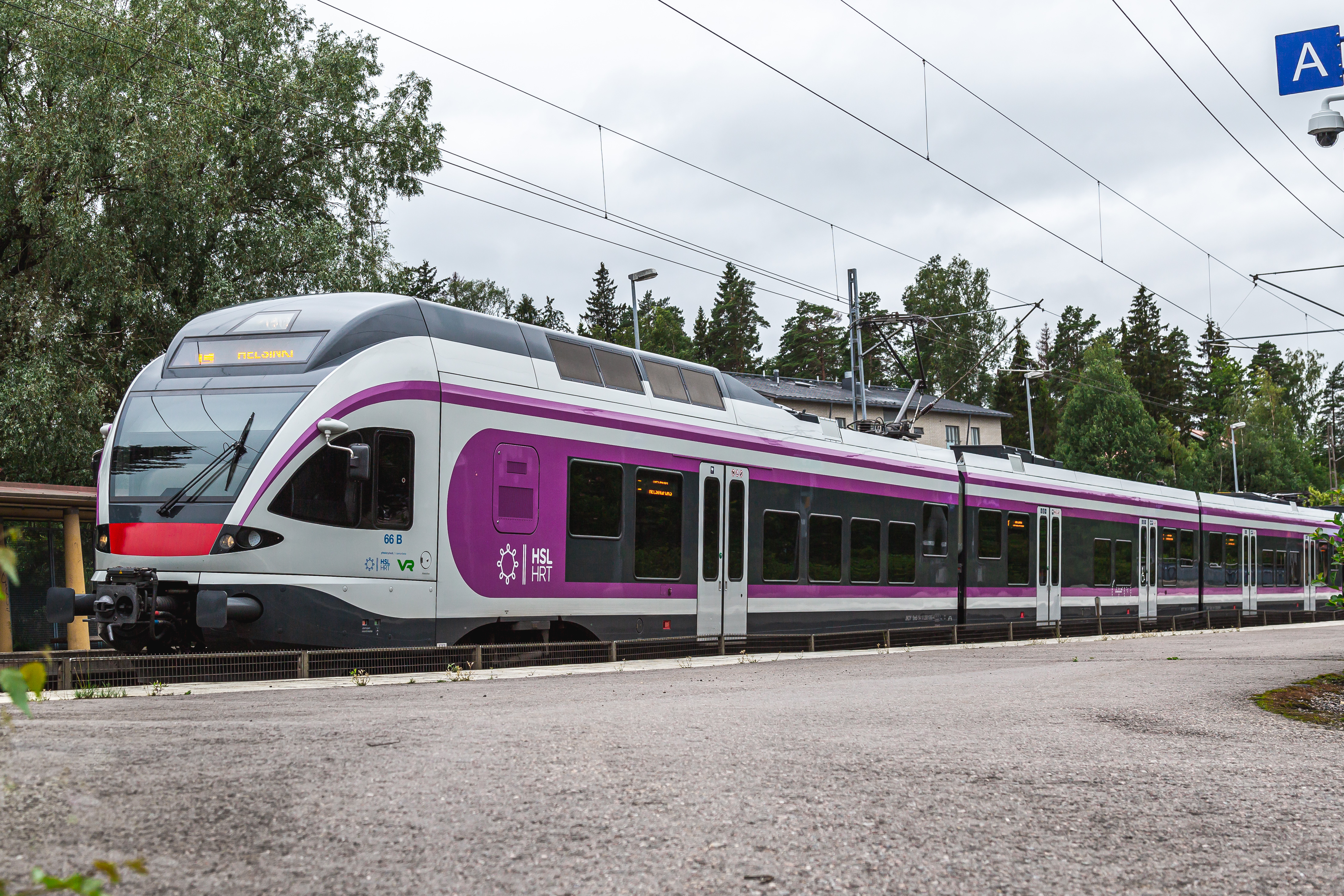 Sm5 at Tuomarila Railway station in Espoo, Finland. Gray day in July 2019.